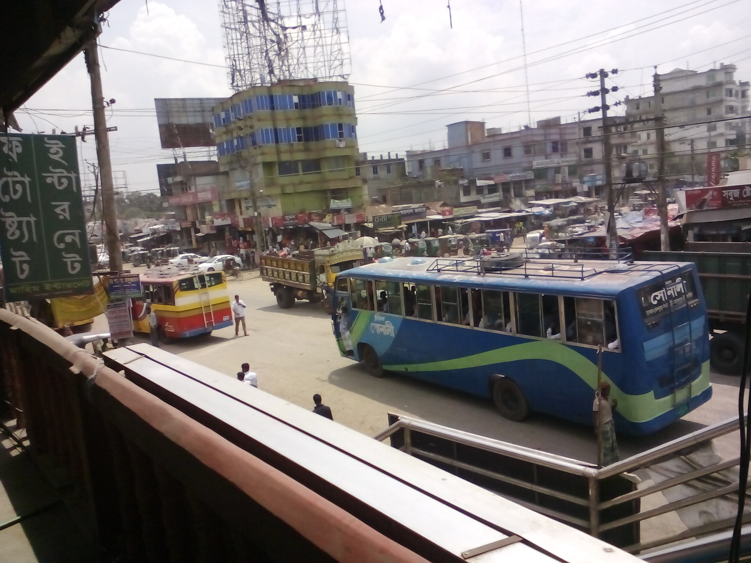 এলেঙ্গা বাসস্ট্যান্ড, এলেঙ্গা পৌরসভা কর্মব্যস্ত এলেঙ্গা পৌরসভা বাসস্ট্যান্ড